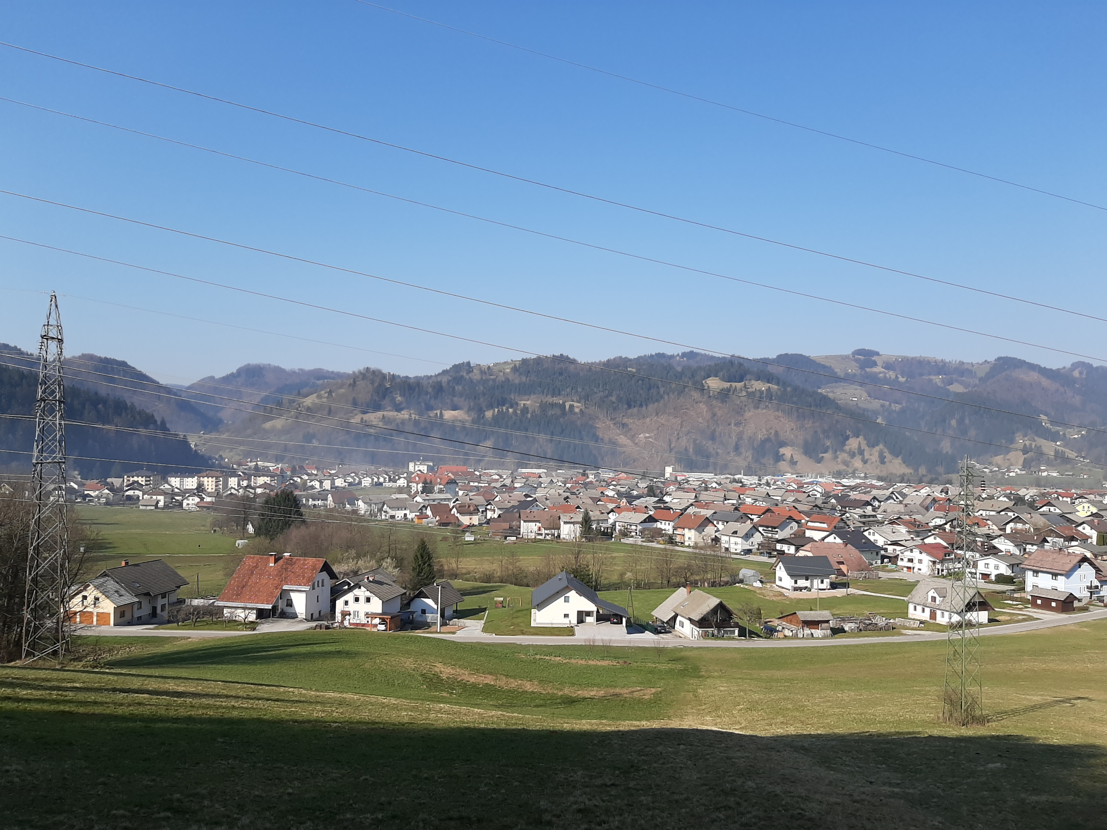 Žiri from east